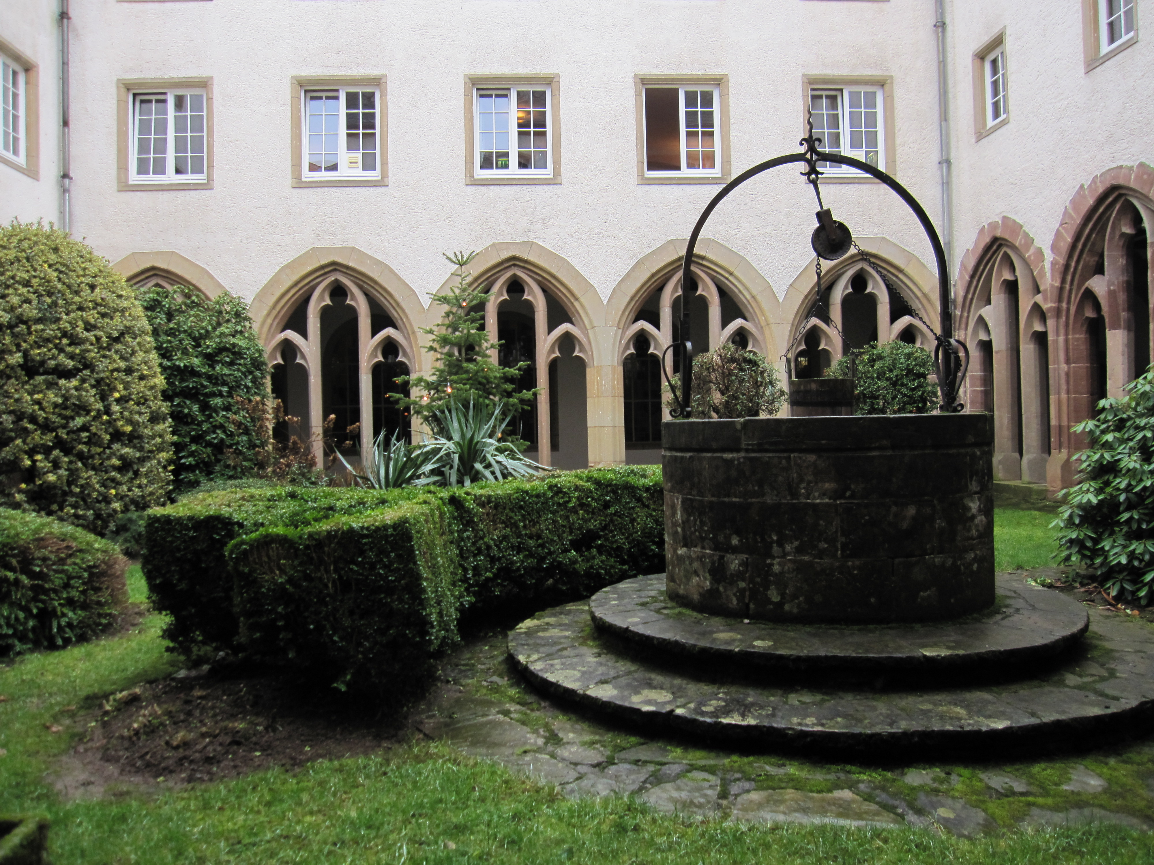 View of the inside garden of the Vianden abbey